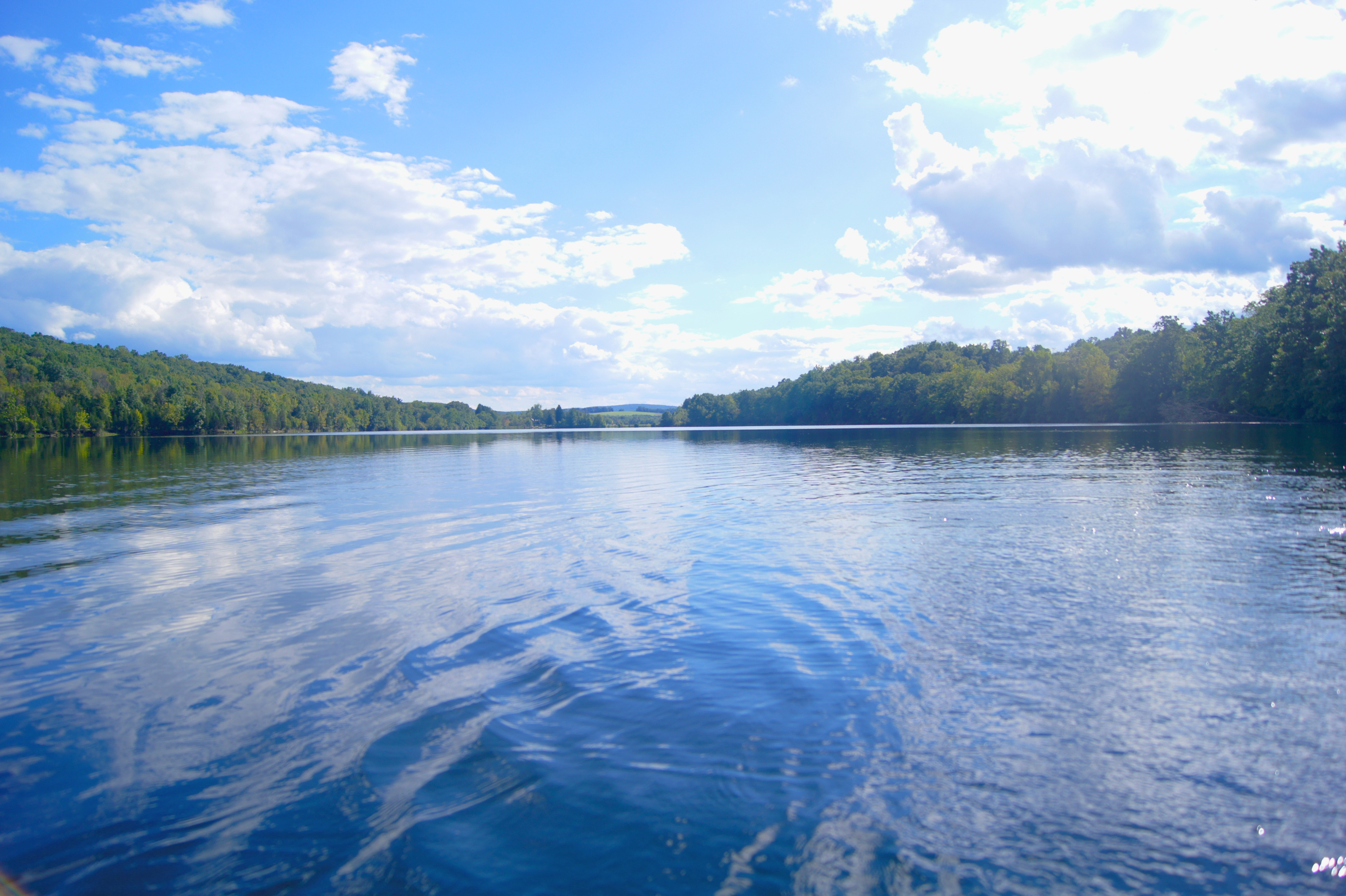 A view from the middle of Lake Aeroflex in New Jersey during summer.